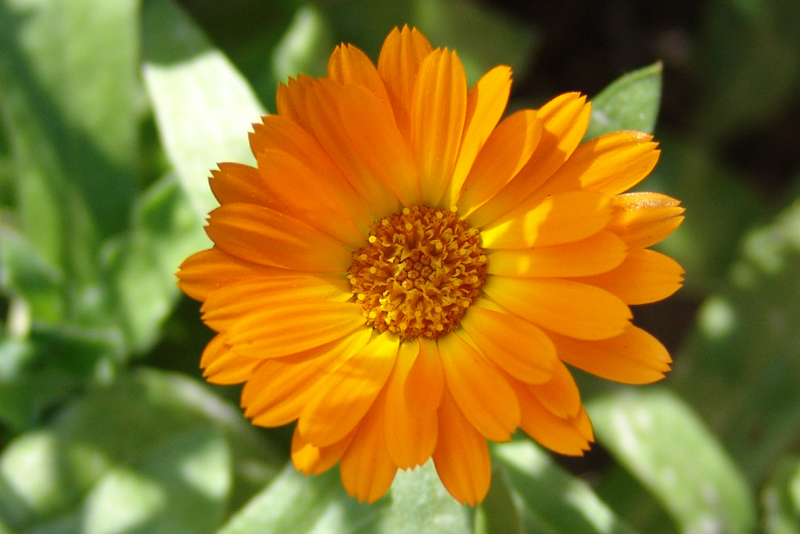 An orange marigold (Calendula officinalis).